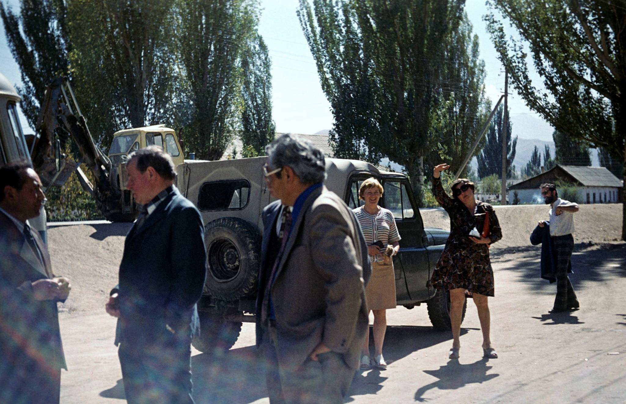 Vara Vtorova (born 1938), Tatyana Orlova (1939-1980) and (in the background) Solomon Lvovich Pereshkolnik (1936-2017) at a conference to mark the 30th anniversary of the Tian Shan Physics and Geography Station, Pokrovka village, Kyrgyz SSR. Academicians M. M. Adyshev and I. G. Gerasimov are in the foreground